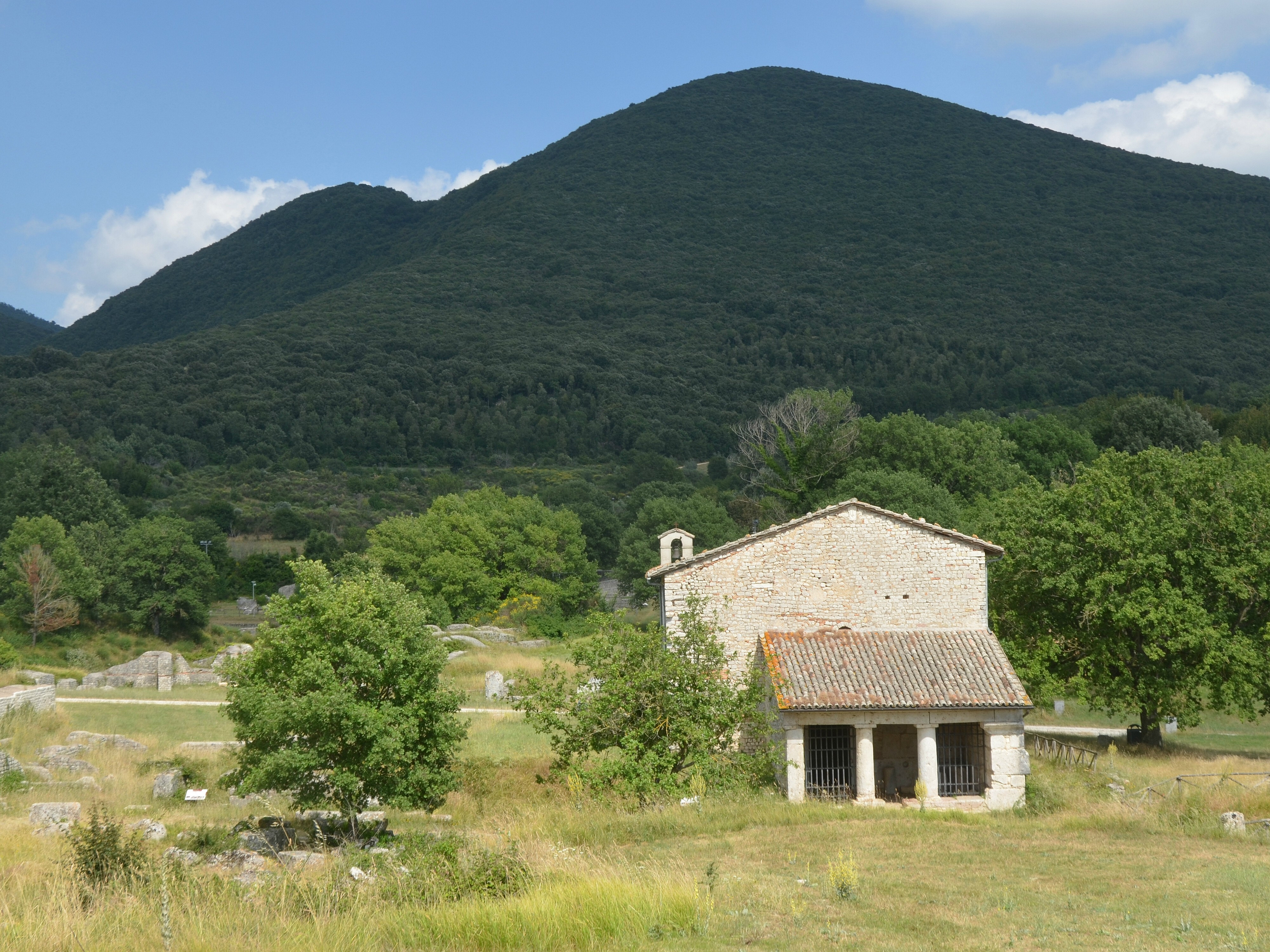 Carsulae, Italy